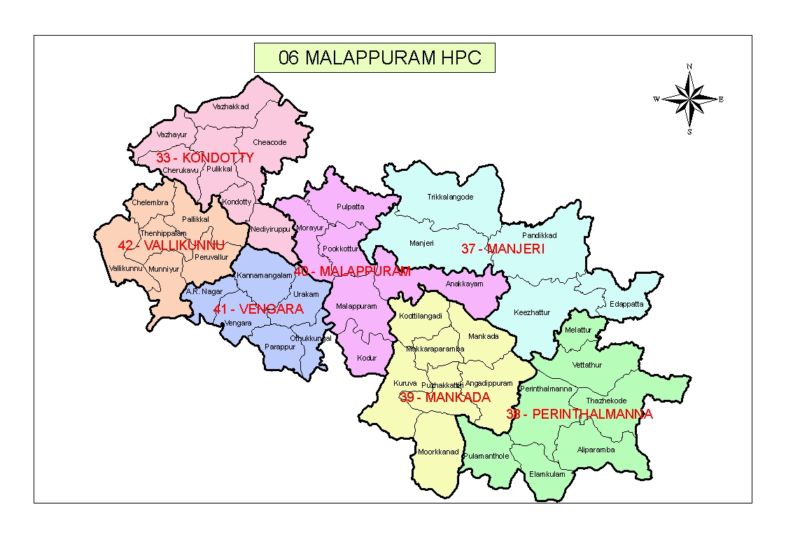 This is the map of Malappuram Lok Sabha Constituency